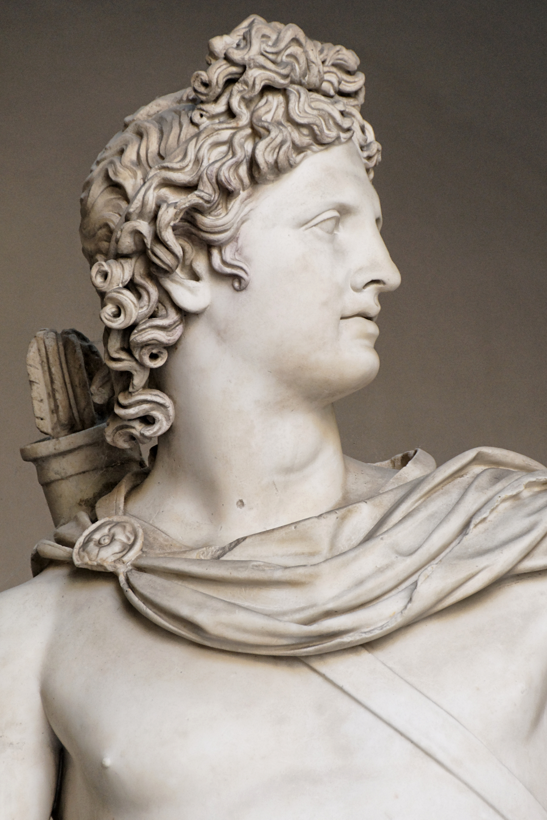 Roman copy after a Greek bronze original of 330–320 BC. attributed to Leochares. Found in the late 15th century.